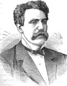 Sketch of the medium Henry Slade.